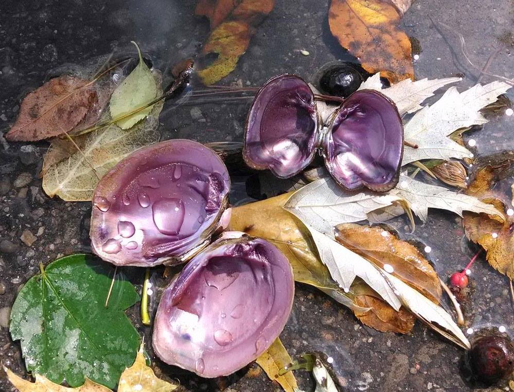 Epioblasma obliquata, the purple catspaw mussel, dead open shells